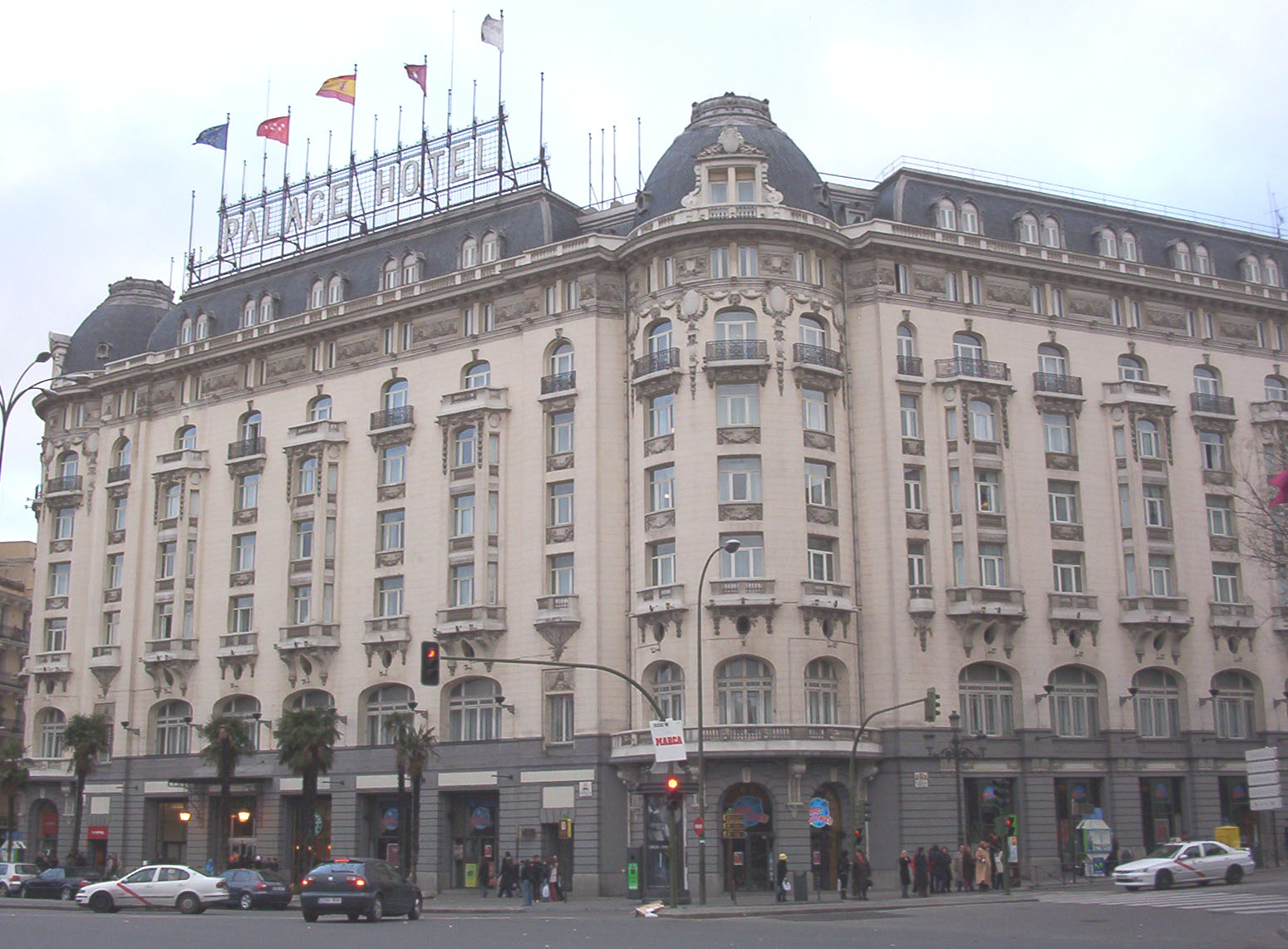 View of the Palace Hotel in Madrid (Spain) from Plaza de Cánovas del Castillo (square). Designed in 1910 by architect Eduard Ferrés Puig (1880–1928) and built from 1911 to 1912.